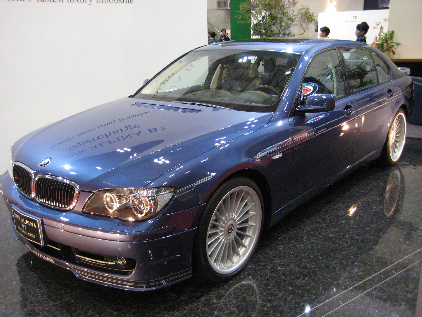 2007 Alpina B7 in Tokyo Motor Show 2007